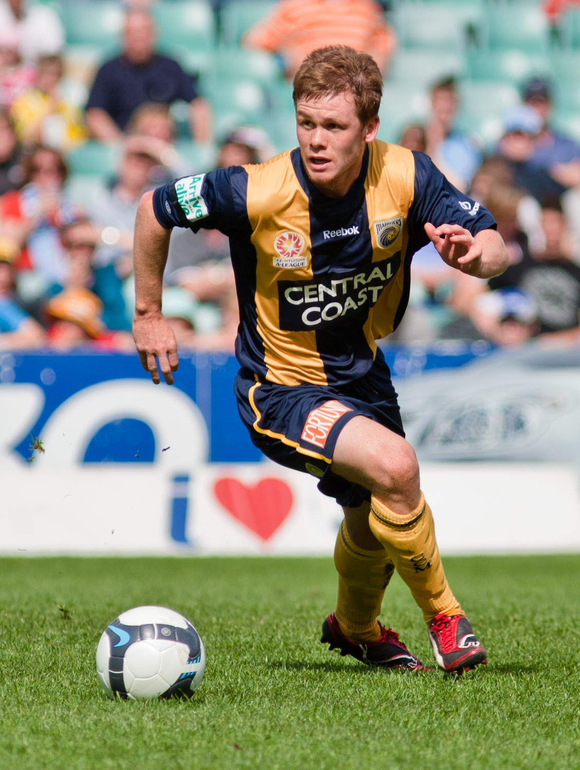 Michael McGlinchey playing for the Central Coast Mariners against Sydney FC in the 2009-10 A-League.